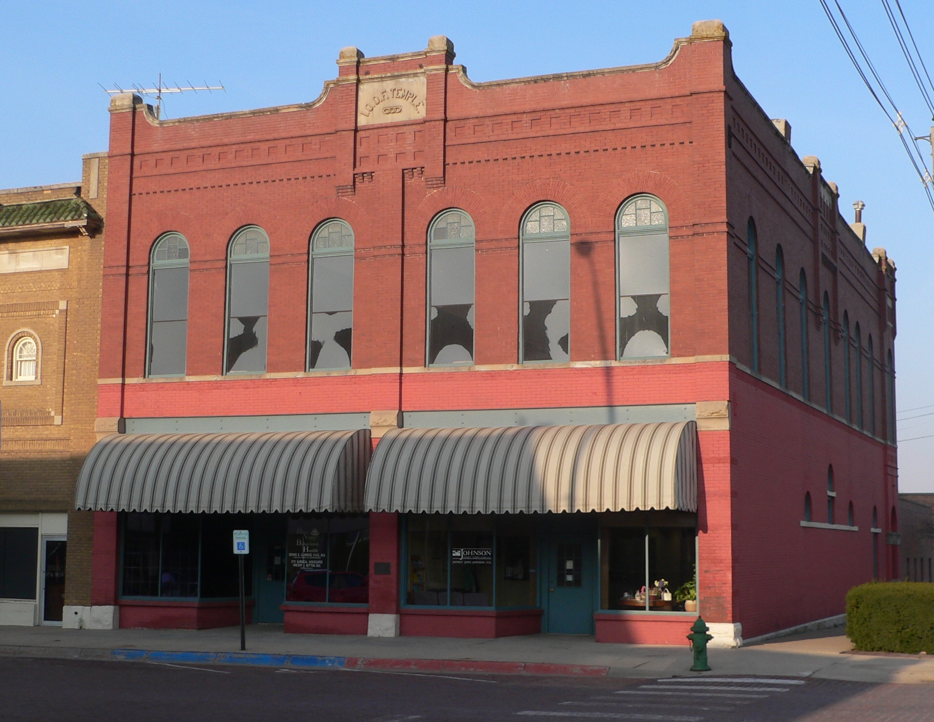 IOOF Temple, located at 523 E Street (southwest corner of 6th and E) in Fairbury, Nebraska; seen from the northeast.